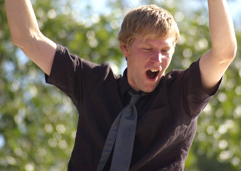 UK Stuntman and TV presenter Colin Furze.